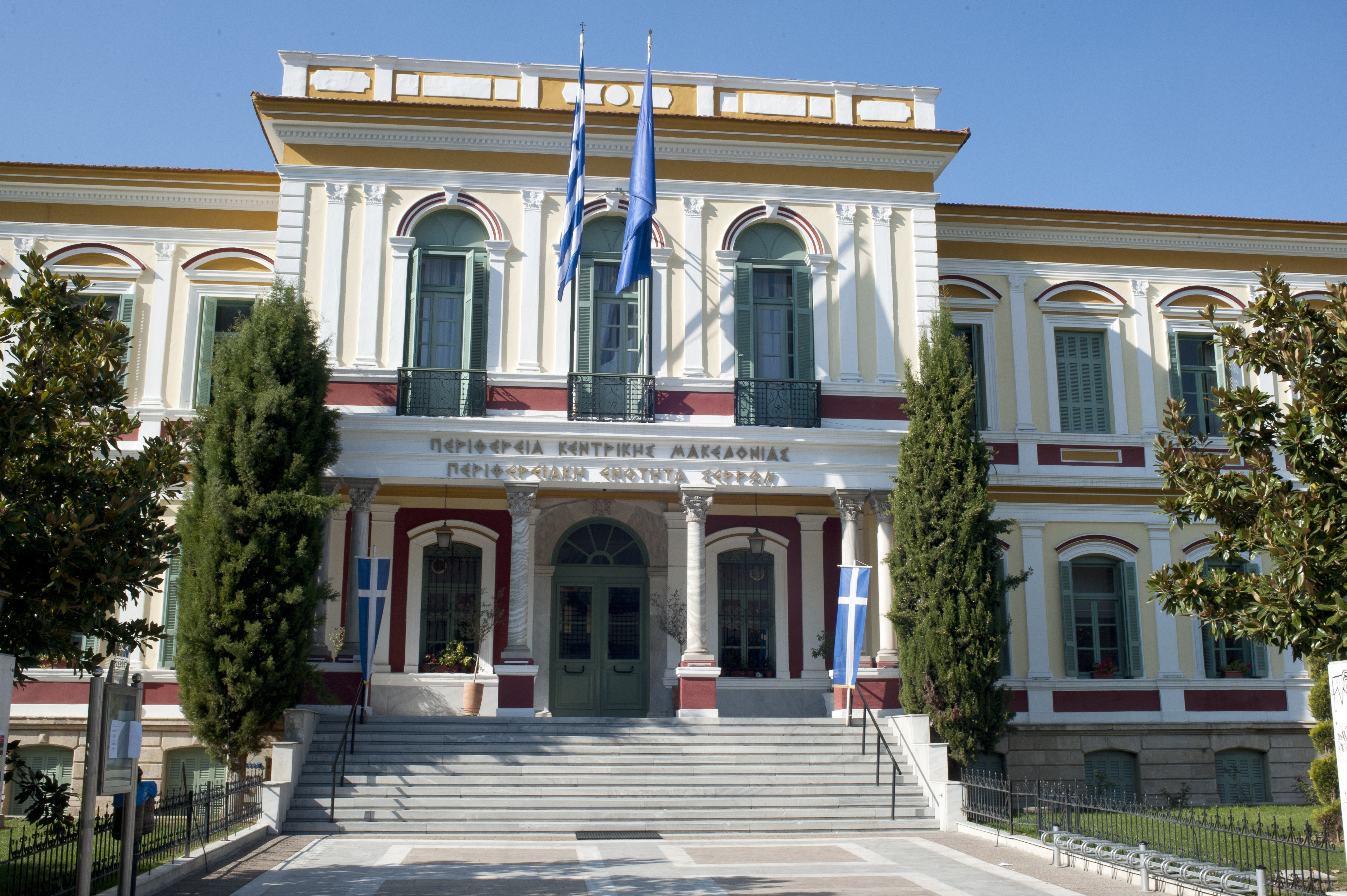 Building of Perfecture of Serres Greece.